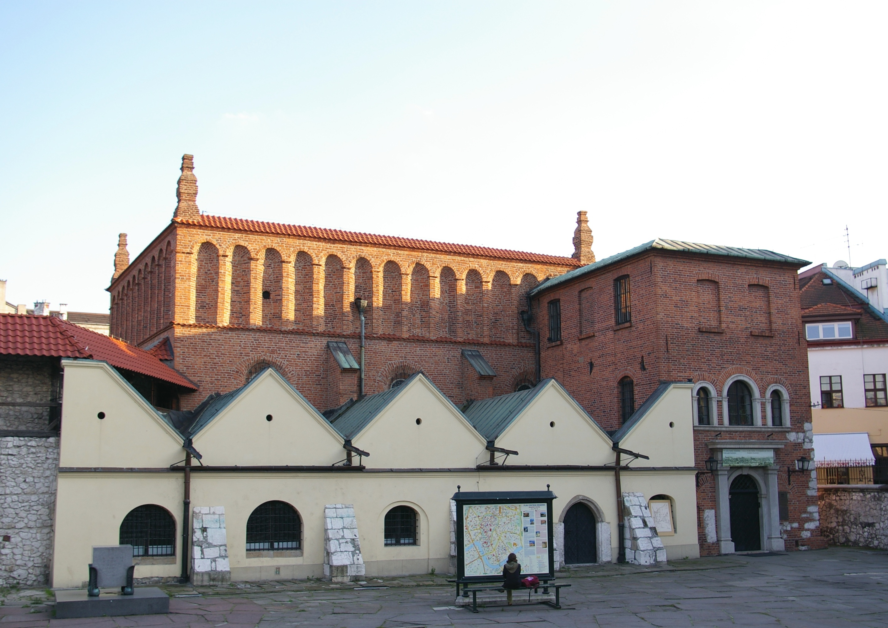 The Old Synagogue in Kraków